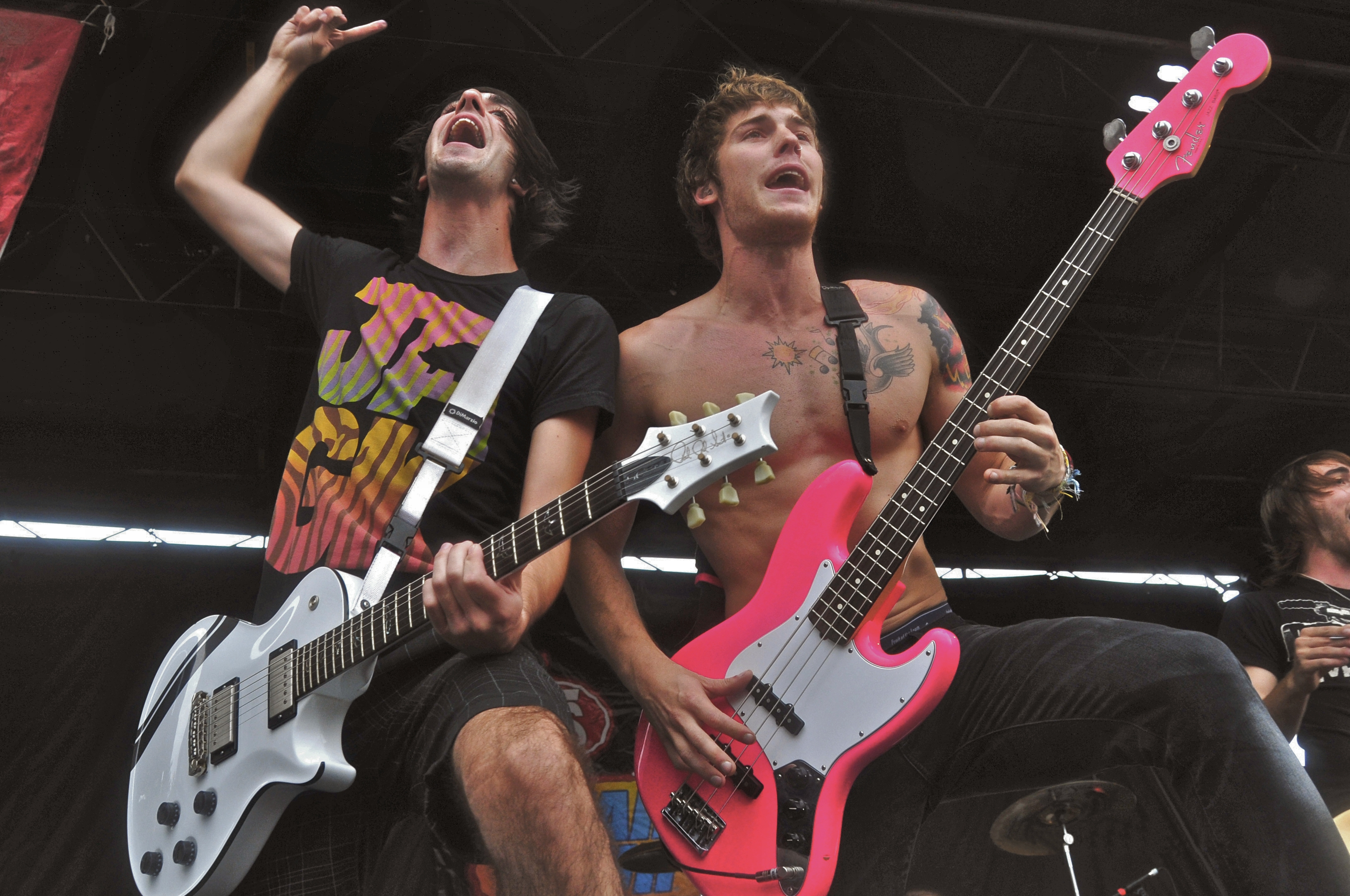 All Time Low performing at Warped Tour on July 21, 2009